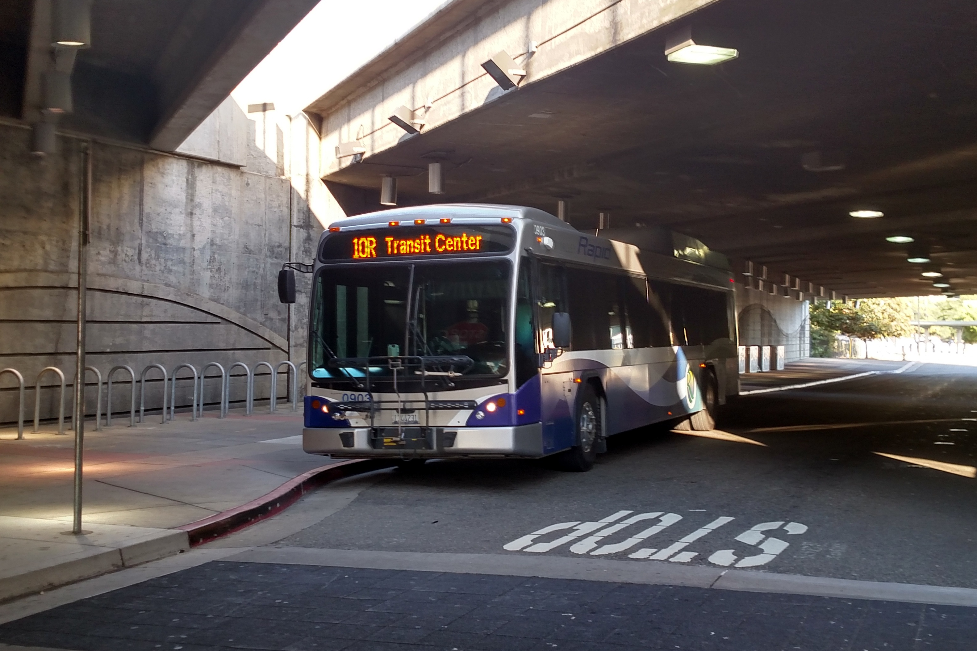 WHEELS route 10R bus at Dublin/Pleasanton station in July 2019